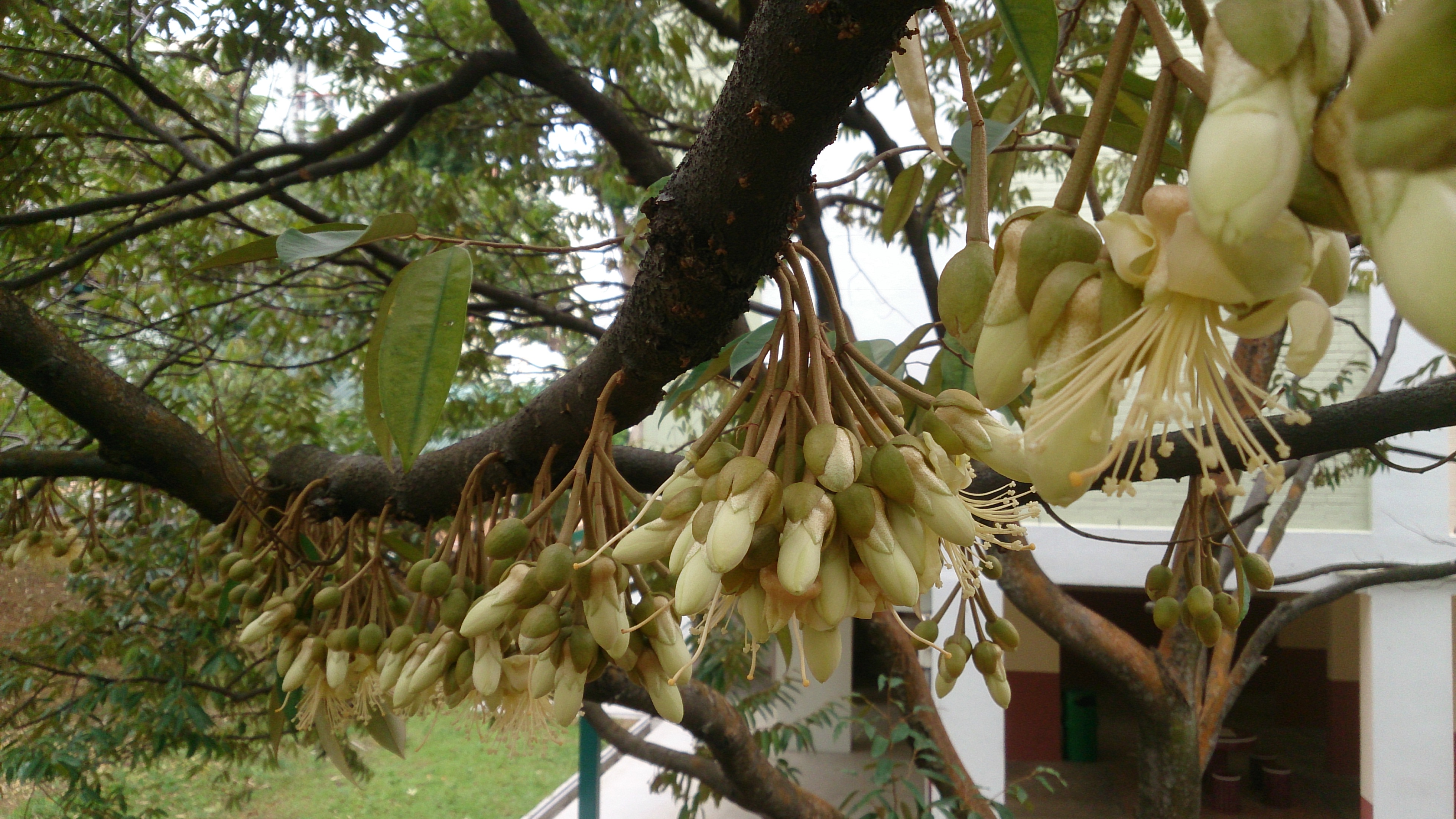 Durio sp.